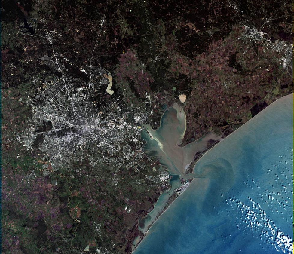 Larger Houston Landsat Houston Texas is the fouth largest city in the United States with a population of 2 million. An interesting fact is that statistically, residents of Houston eat out at restaurants more regularly than the residents of any other city in the U.S.